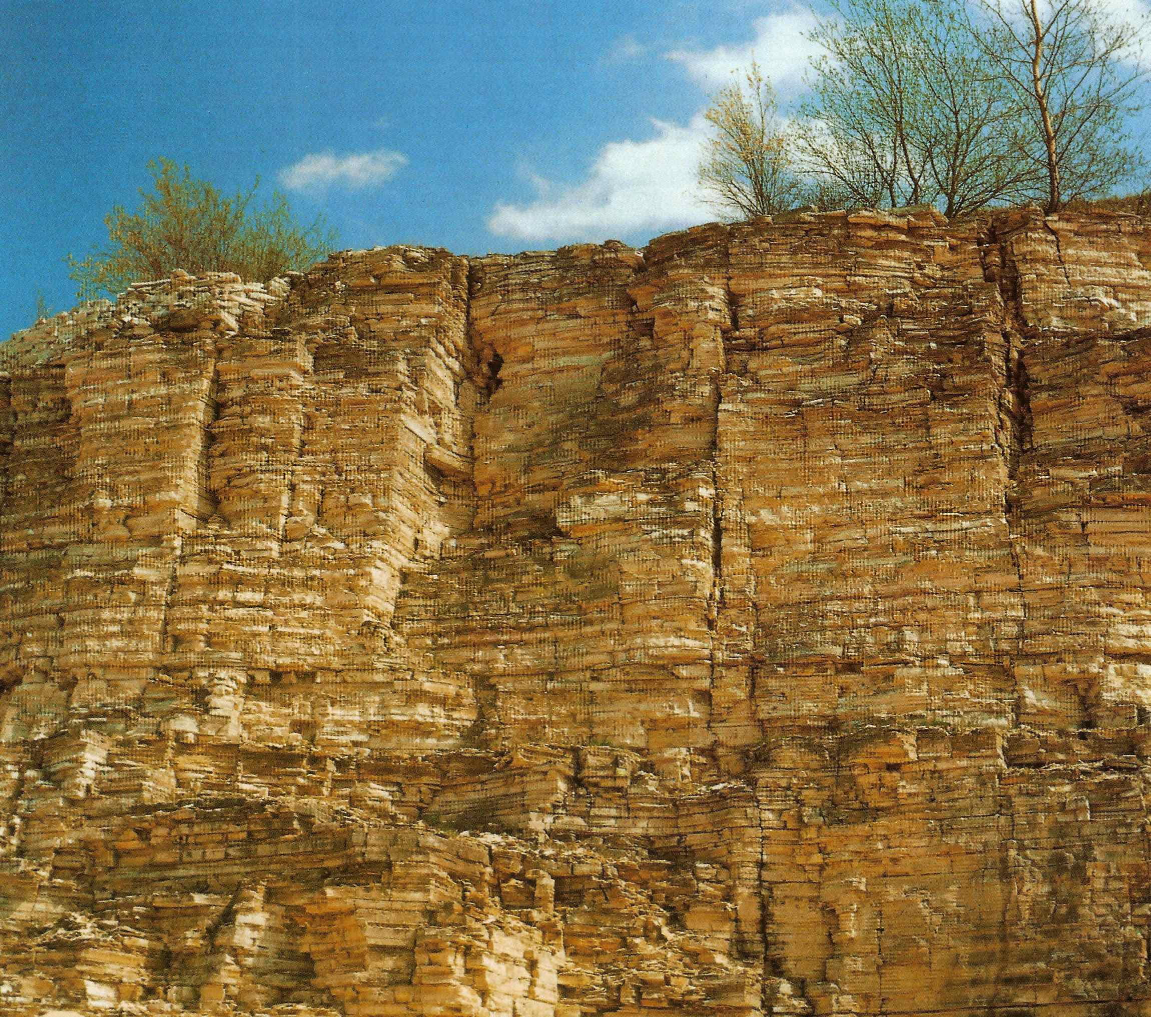 Solnhofen quarry, Obere Haardt